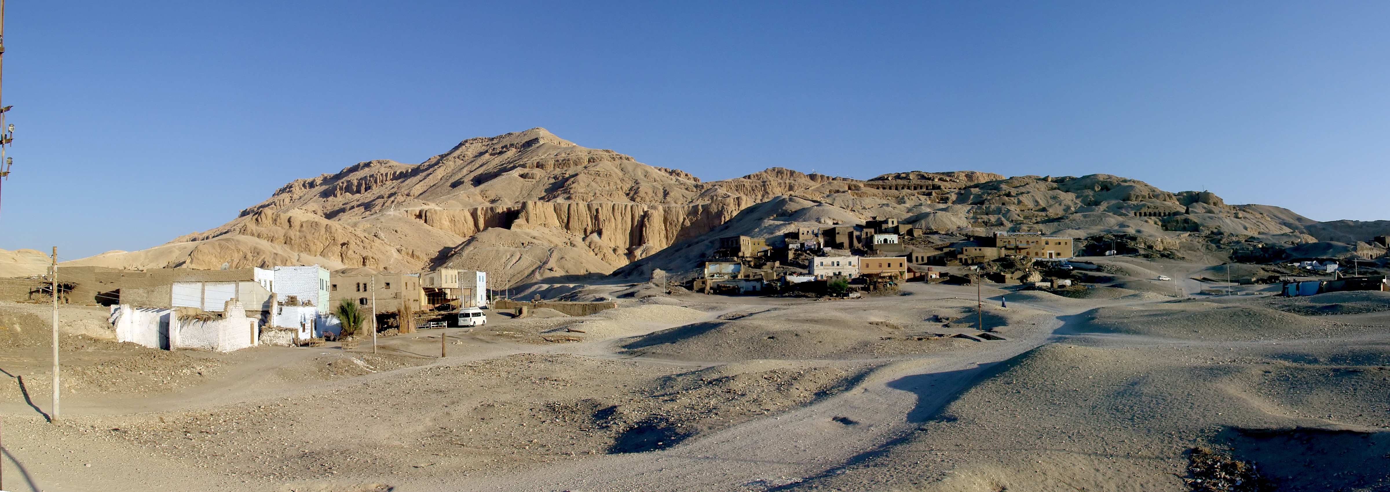 Sheikh Abd el-Qurna, Theban Necropolis